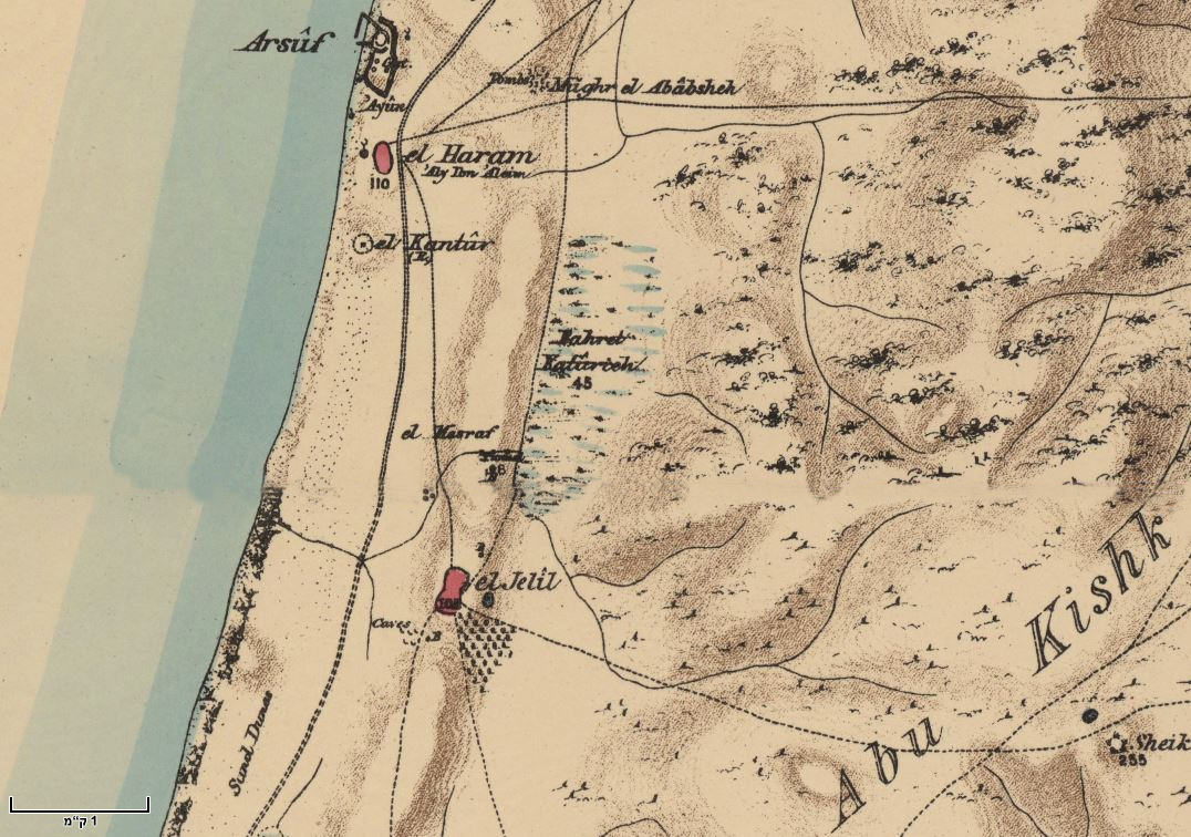 Portion of map produced by the Survey of Western Palestine, first published in 1880 by the Committee of the Palestine Exploration Fund. The editor, Walter Besant, died in 1901. This portion is based on a survey of 1878